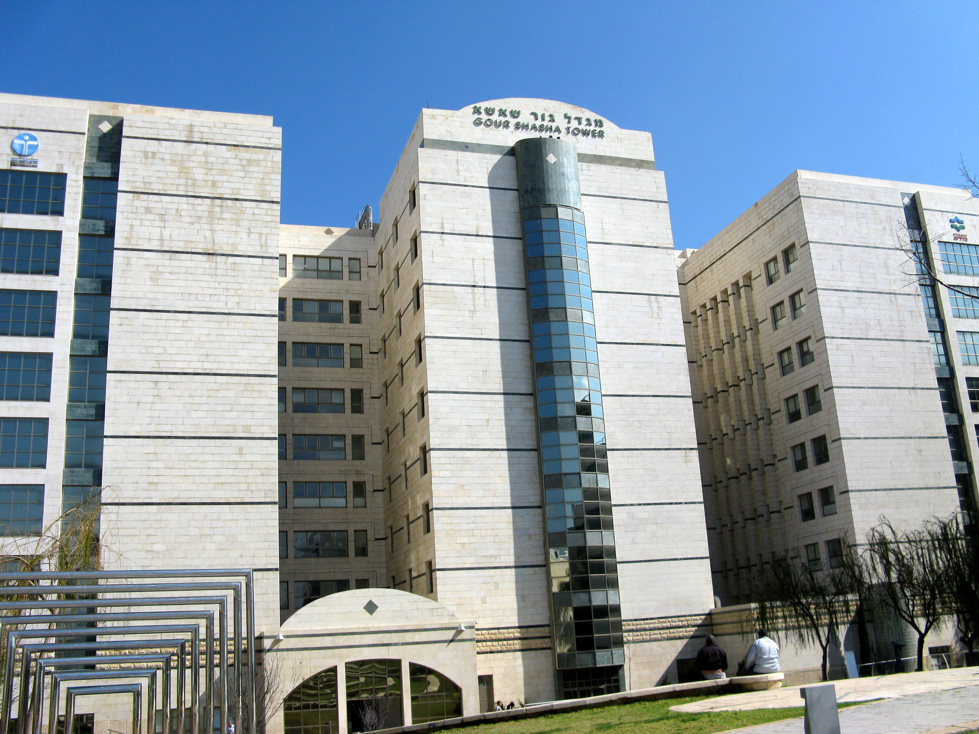 Gur Shasha tower